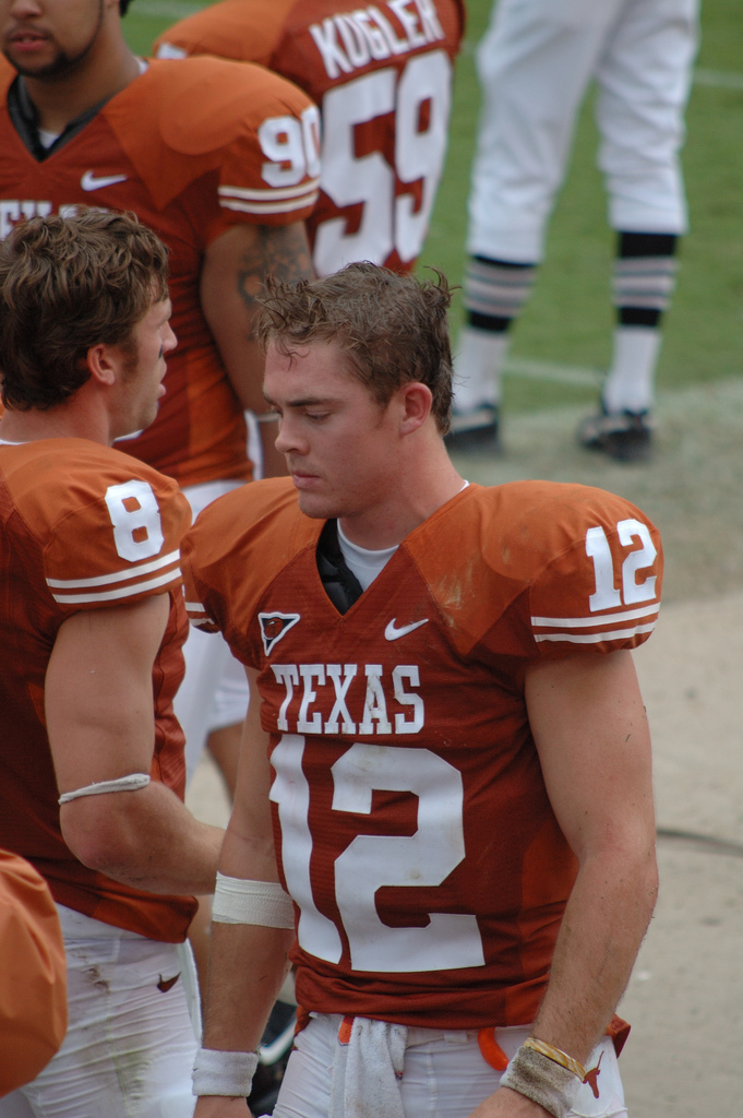 Colt McCoy